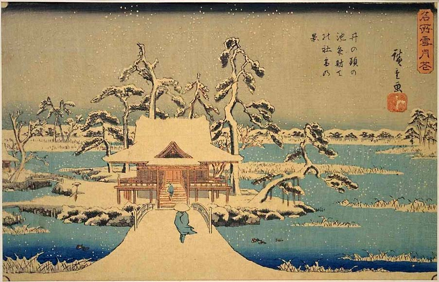 The print depicts a shrine to Benzeiten, one of the Seven Gods of Good Fortune.